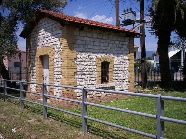 Messologi auxilliary building